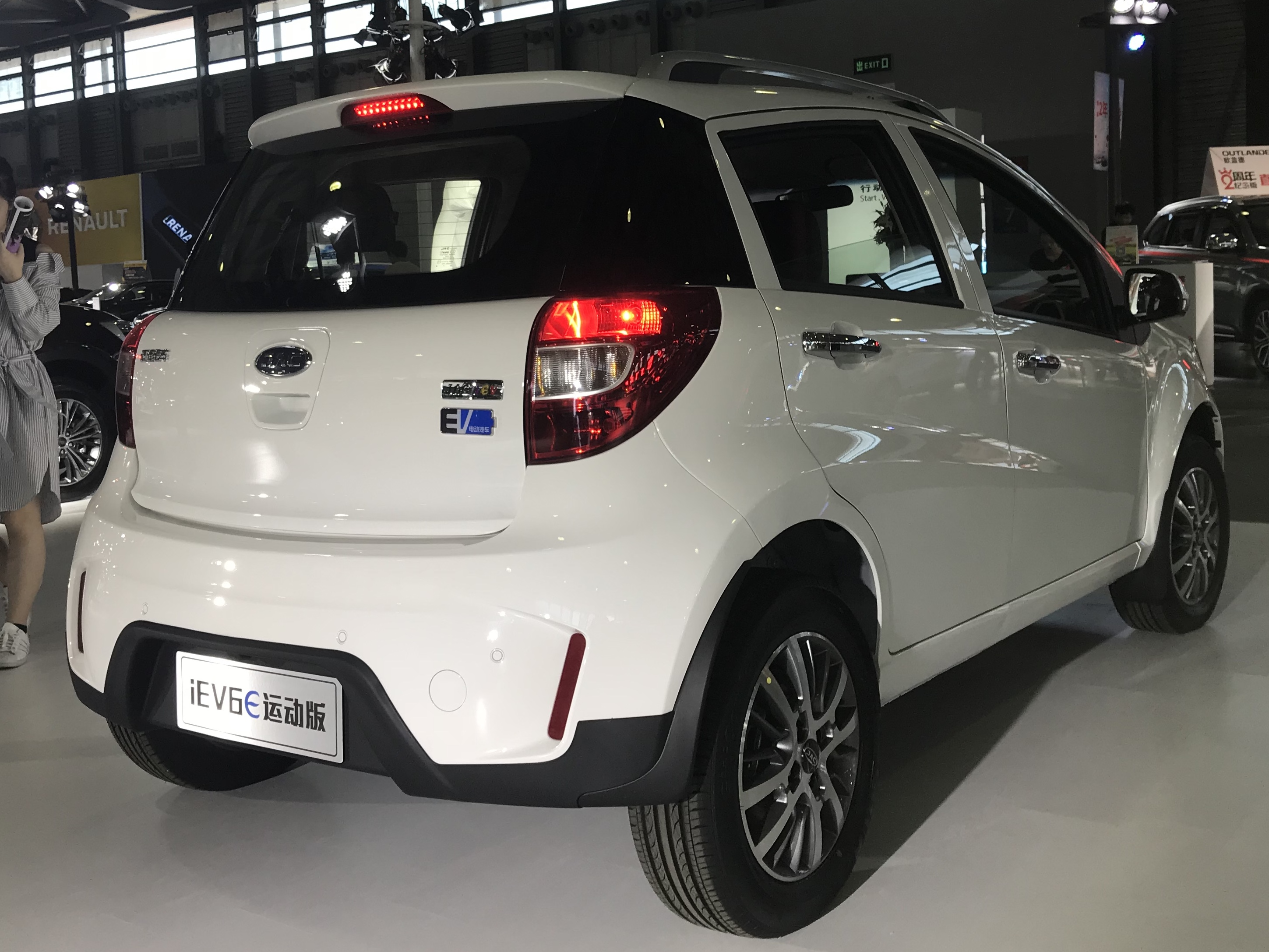 iEV6e sport rear